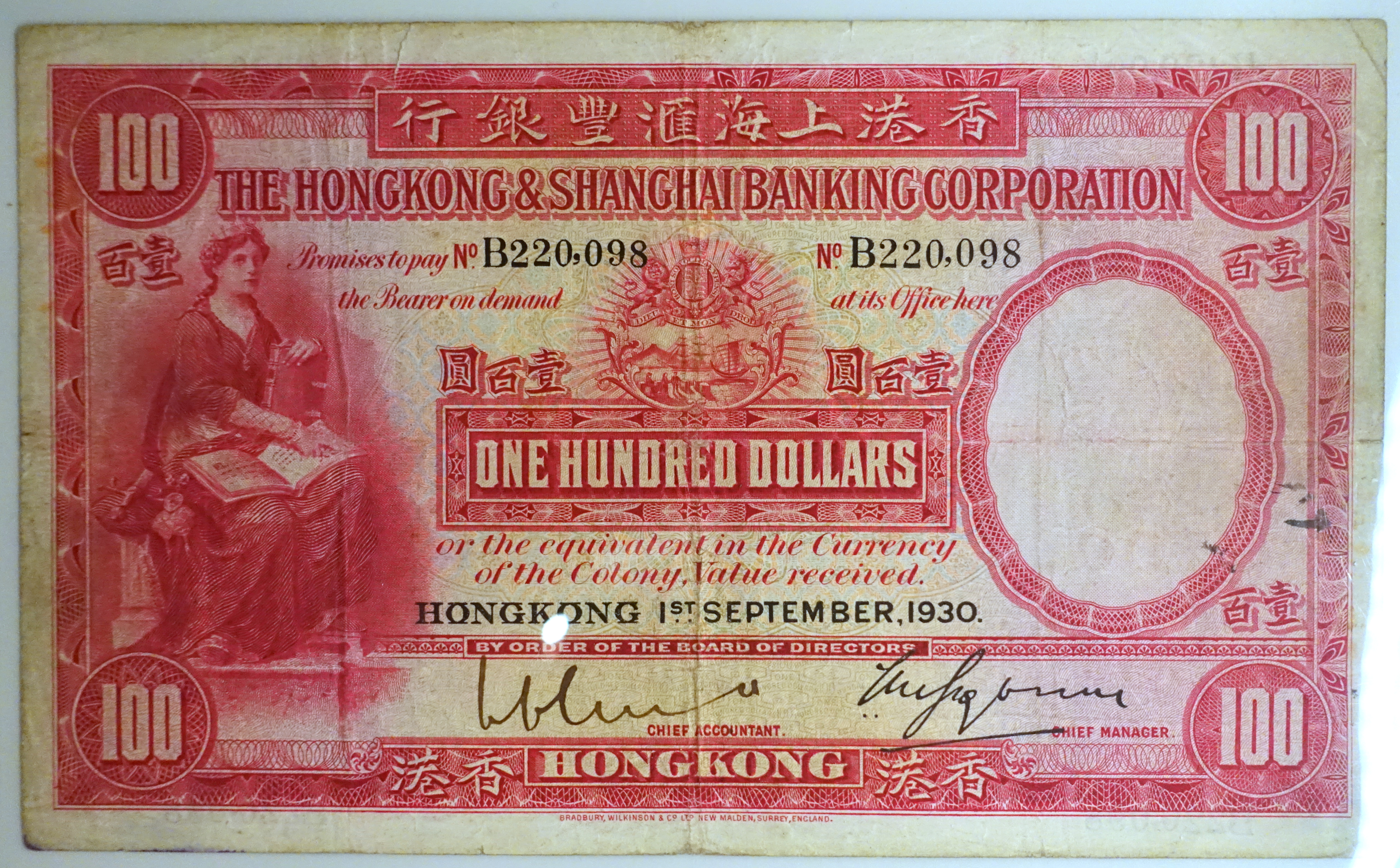 Exhibit in the Hong Kong Museum of History, Hong Kong.